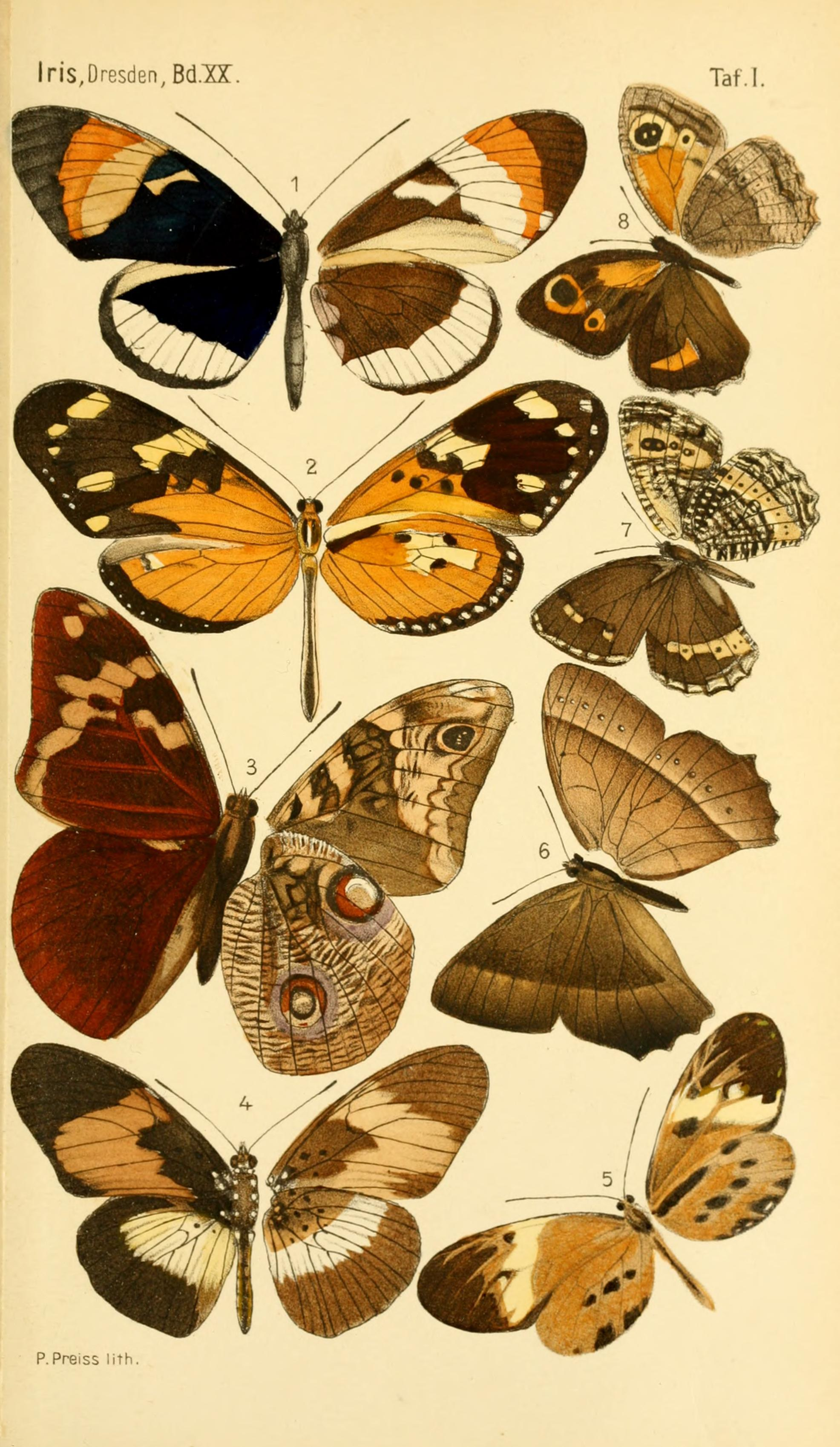 Gustav Weymer, 1907 Exotische Lepidopteren Dt. ent. Z. Iris 20 (1,2) : 1-51, plate 1 text 1 Heliconius heurippa Hewitson, 1854 form wernickei Staudinger 2 Melinaea boliviana Weymer, 1907 synonym for Melinaea mnemopsis Berg, 1897 3 Opsiphanes singularis Weymer, 1907 synonym for Mielkella singularis (Weymer, 1907) 4 Pseudacraea fickei Weymer, 1907 synonym for Pseudacraea simulator Butler, 1873 5 Ceratinia suffusa Weymer, 1907 synonym for Callithomia alexirrhoe alexirrhoe Bates, 1862 6 Taygetis tripunctata Weymer, 1907 7 Pampasatyrus reticulata (Weymer, 1907) 8 Neomaenas tenedia Weymer, 1907 synonym for Haywardella edmondsii (Butler, 1881)